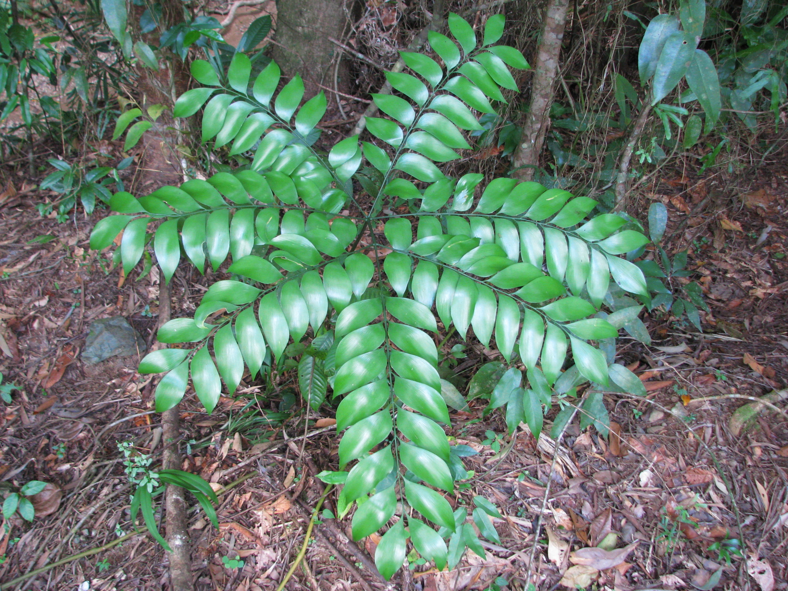 Plant with single frond in the Daintree rainforest, north-east Queensland